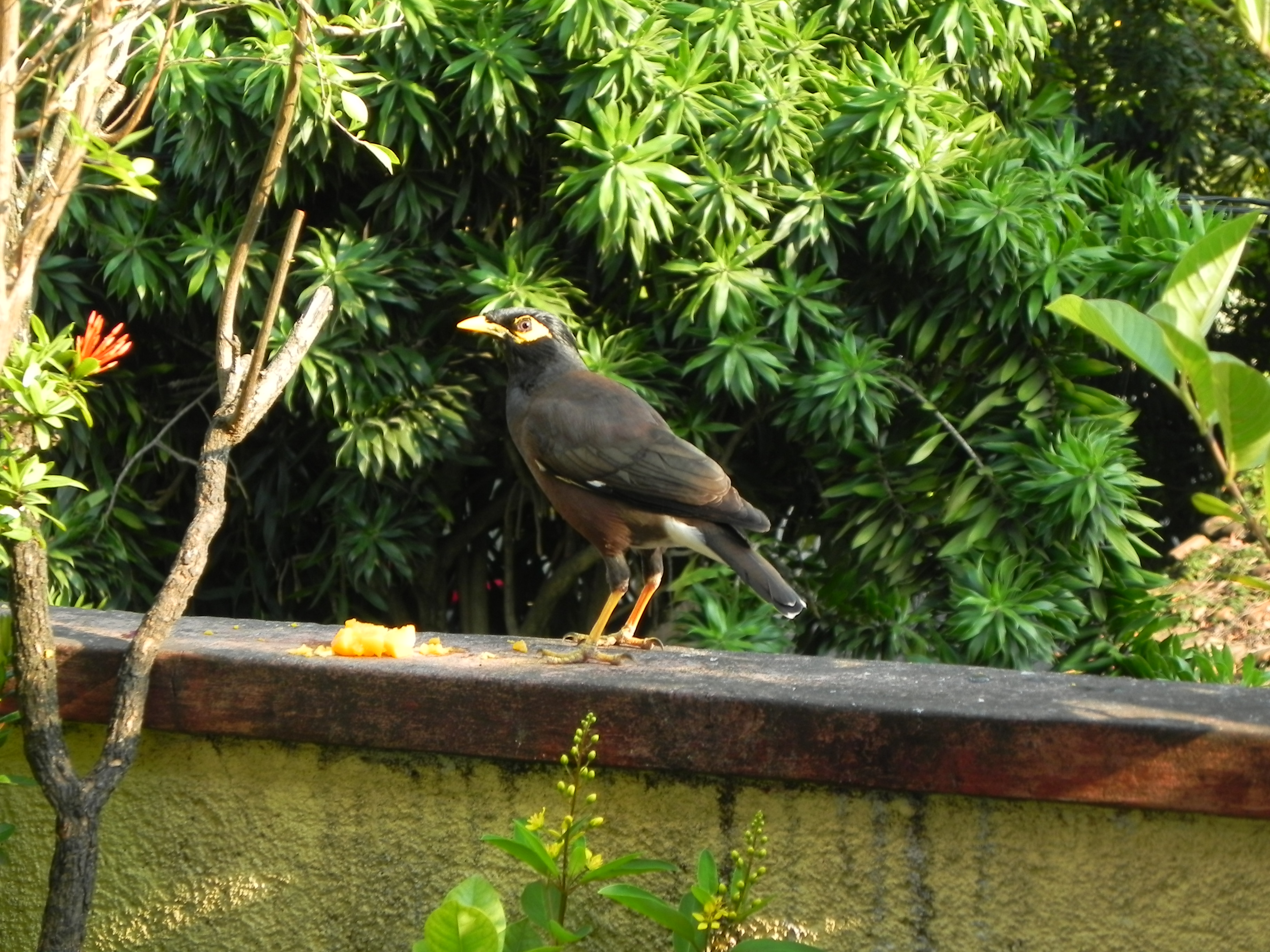 A common Mynah visiting a home garden in Colombo, Sri Lanka